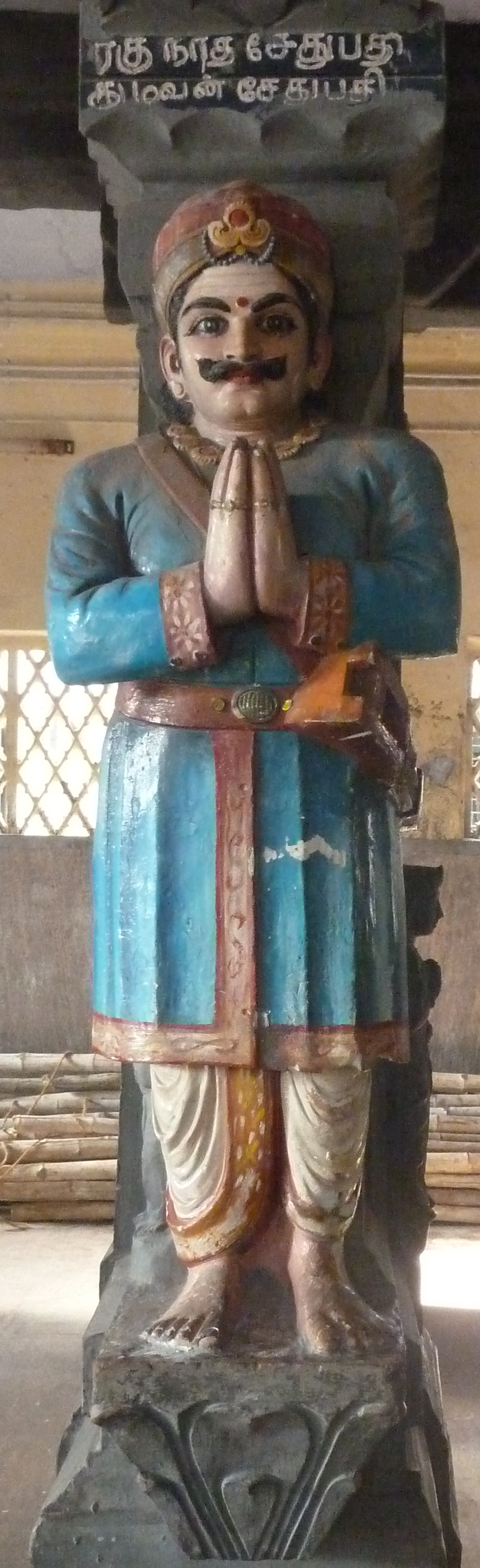 Raghunatha Sethupathi II alias Kilavan Sethupathi (1671AD. To 1710 AD). Statue found in Rameshwaram shiva temple